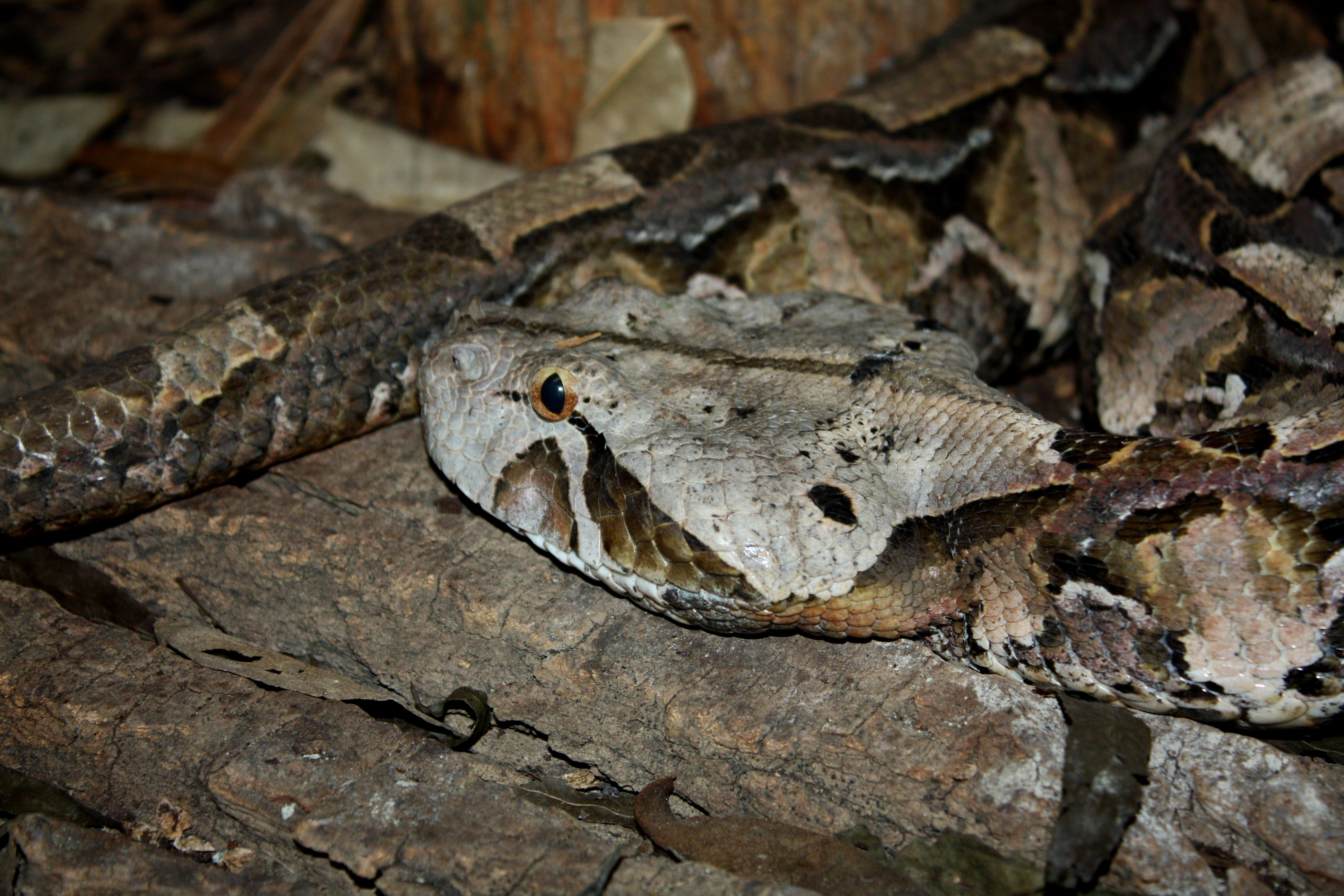 Gaboon Viper at Louisville Zoo